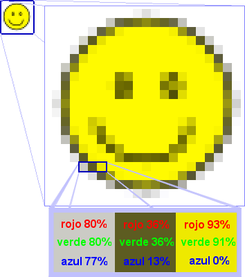 Image in spanish.